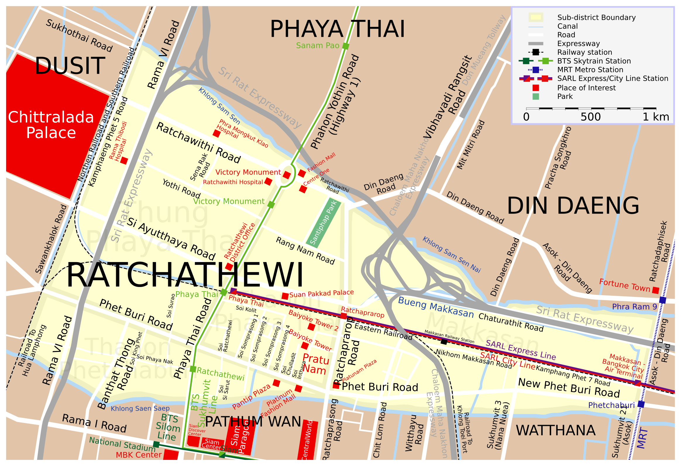 Map of Ratchathewi District, Bangkok.